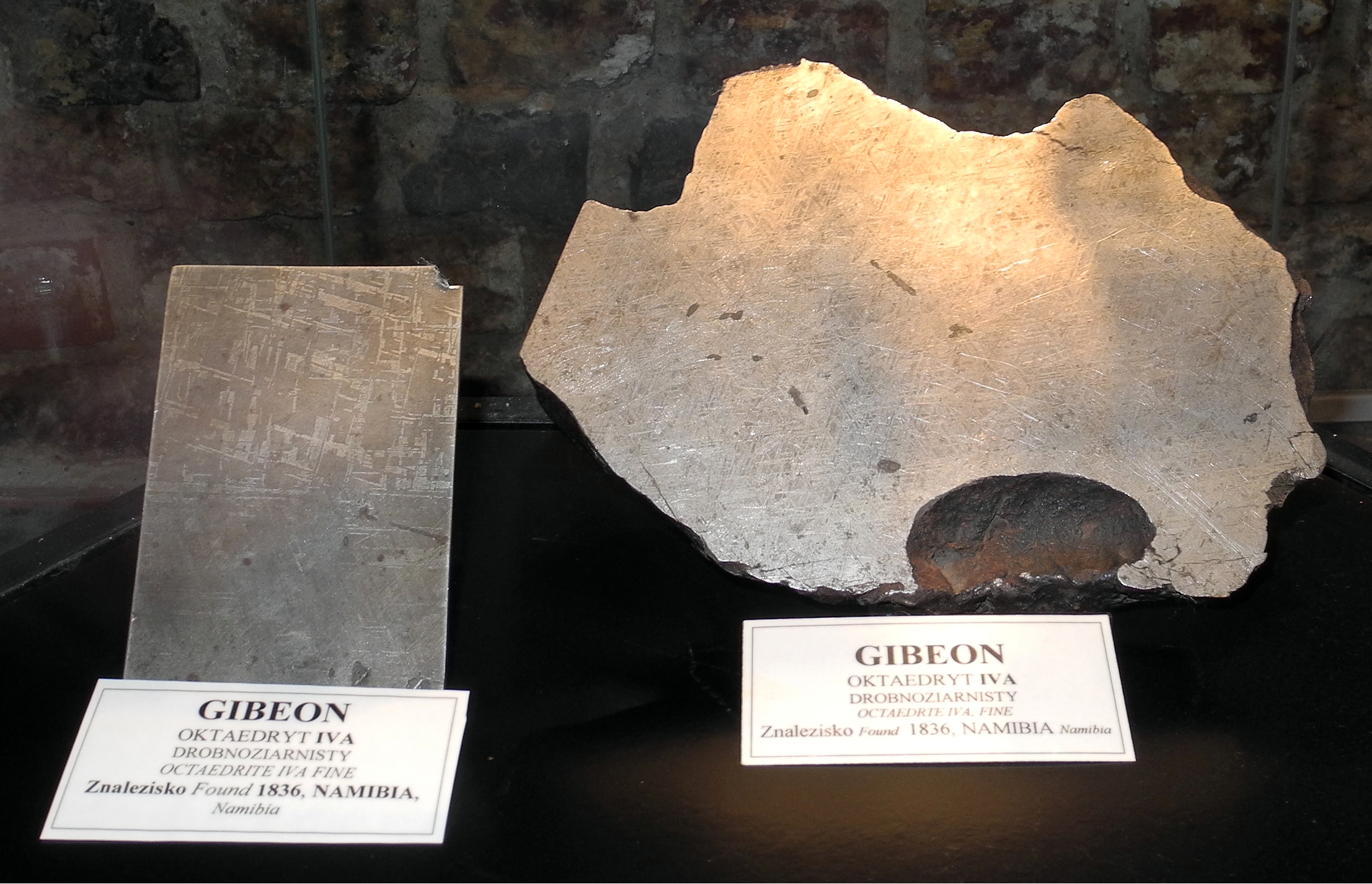 Gibeon meteorite, octahedrite. Mineralogical Museum, Wrocław.